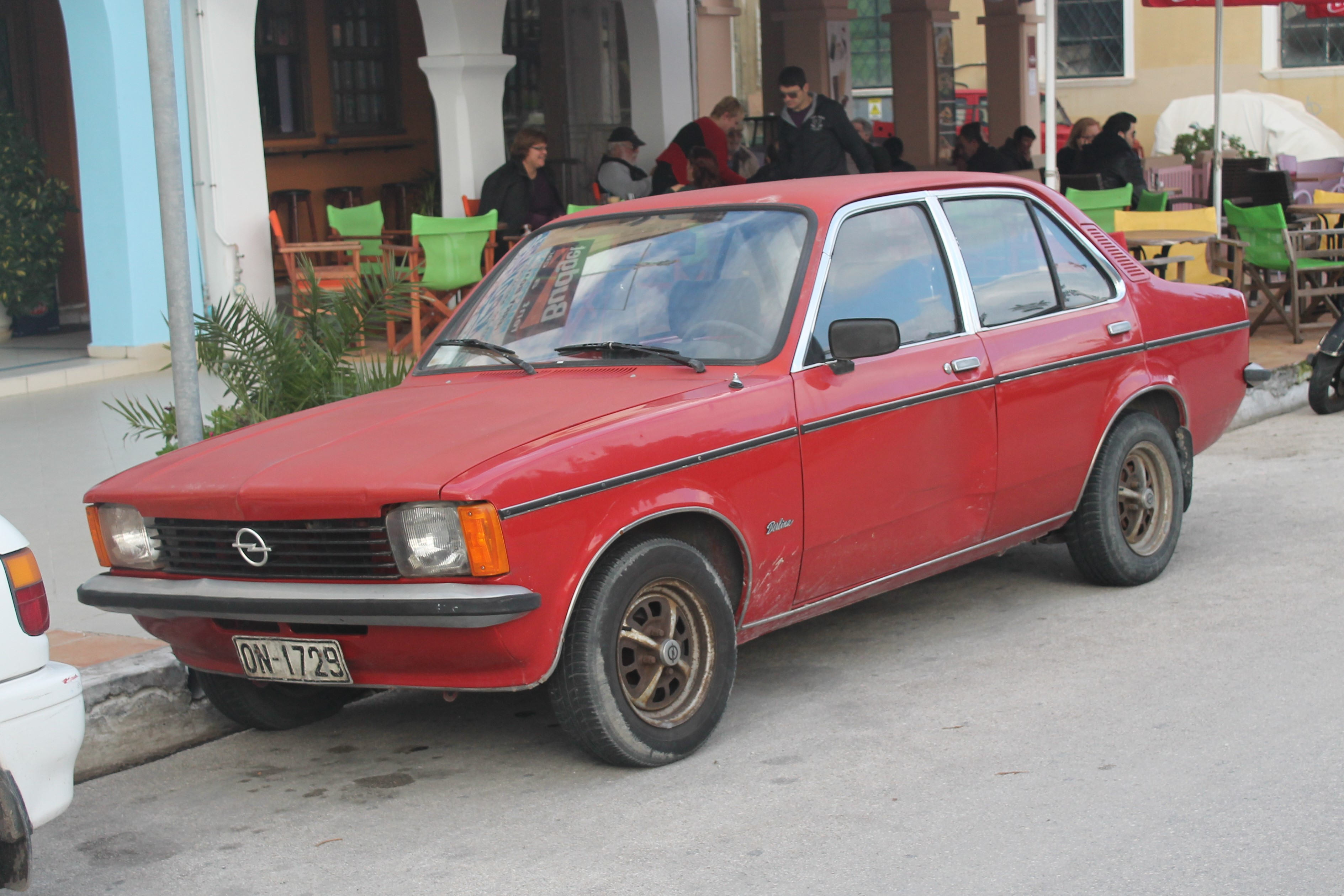 This was a lovely little gem of a car. From the badges it appears to be an Opel Kadett C 1.2 S Berlina. The Wikipedia article tells me otherwise- it says the Berlina had a 1.6 S engine, not a 1.2? I love the old Opel alloys on this, and I thought it's a really neat looking car. The 4 door "limousine" was only produced for export markets, not for West German residents. Another lovely survivor, it really is amazing (and very pleasing) how some Greeks keep their cars for such a long time. The Kadett C dates from 1973-79, but I think this one falls into the later part of that timeframe.